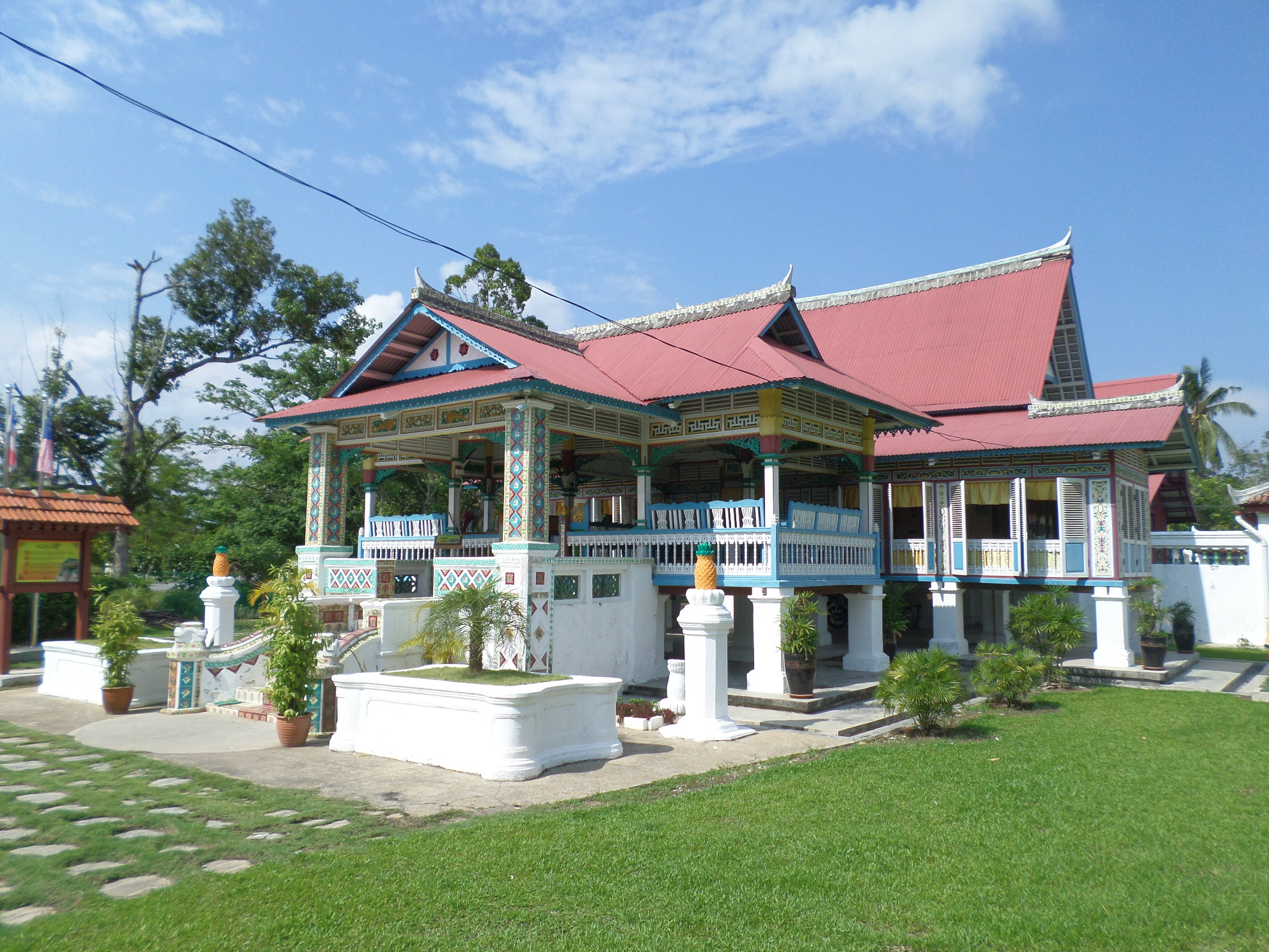 Demang Abdul Ghani Gallery, Merlimau, Jasin, Melaka, MalaysiaBahasa Melayu: Rumah Penghulu Abdul Ghani, Merlimau, Jasin, Melaka, Malaysia